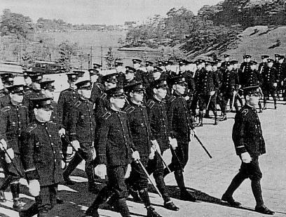 The Tokubetsu-keibi-tai (special security unit) of the Tokyo Metropolitan Police Department.